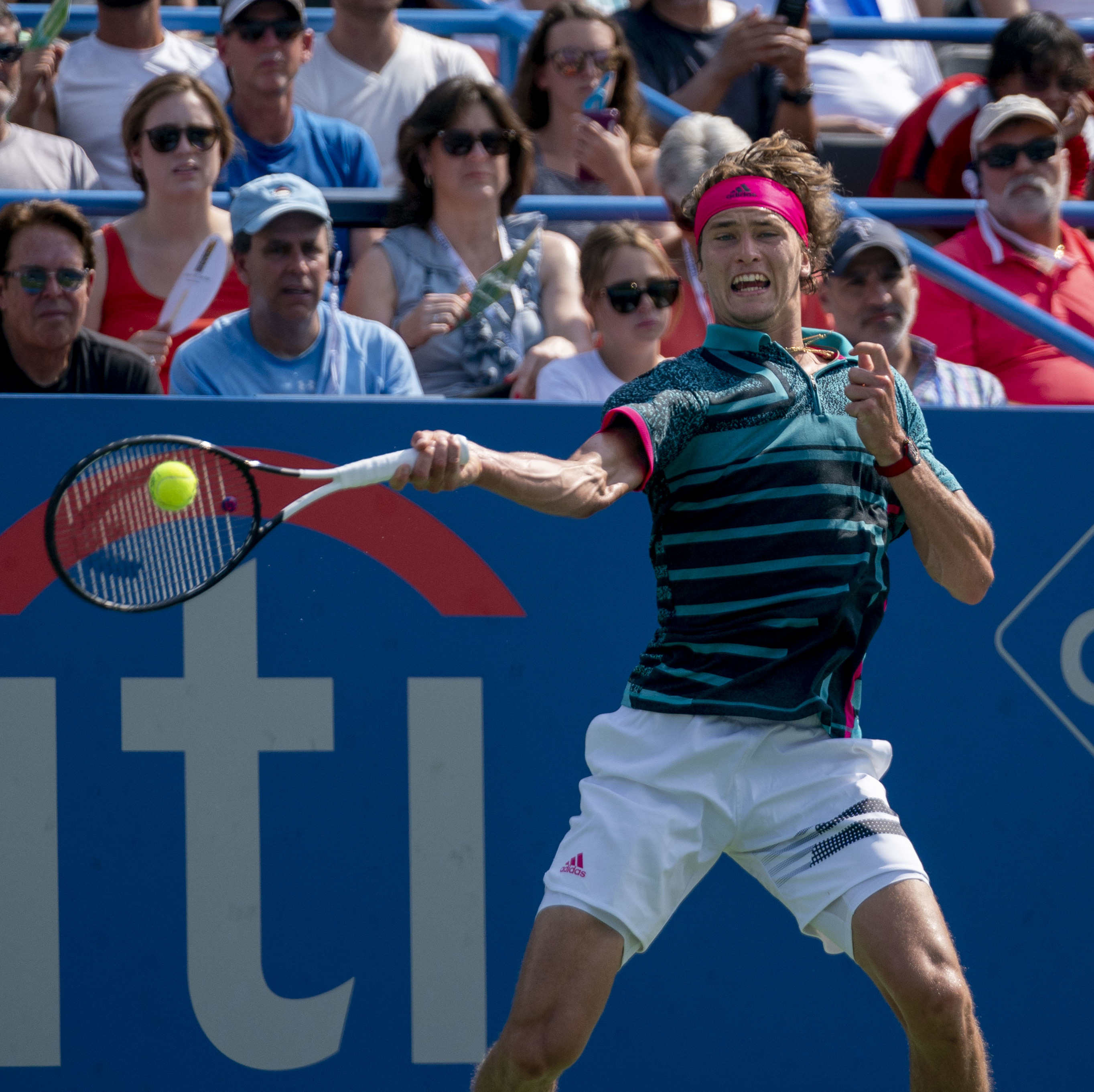 2018 Citi Open Tennis Finals